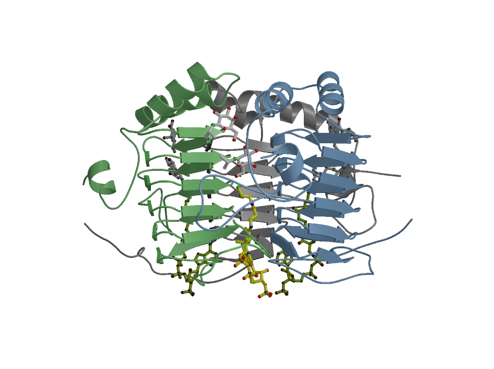 Image provided for me on request from Steven L. Roderick of Albert Einstein College of Medicine from a similar one to published in his papers. This one hasn't been published though. Licensing Attribution: Steven L. Roderick of Albert Einstein College of Medicine